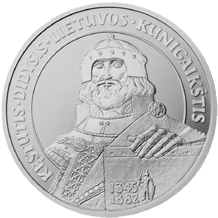 50 litas coin issued to honour Kestutis, the Grand Duke of Lithuania (From the series "The Rulers of Lithuania") Silver Ag 925 Quality proof Diameter 34.00 mm Weight 23.30 g The words on the edge of the coin: IS PRAEITIES TAVO SUNUS TE STIPRYBE SEMIA* (FROM THE PAST LET YOUR SONS DERIVE THEIR STRENGTH) The designer of the coin are Petras Gintalas and Antanas Zukauskas Mintage 2,500 pcs Issued 1999 Distribution terminated 2004 Distributed 2,500 pcs The coin was minted at the state enterprise Lithuanian Mint.